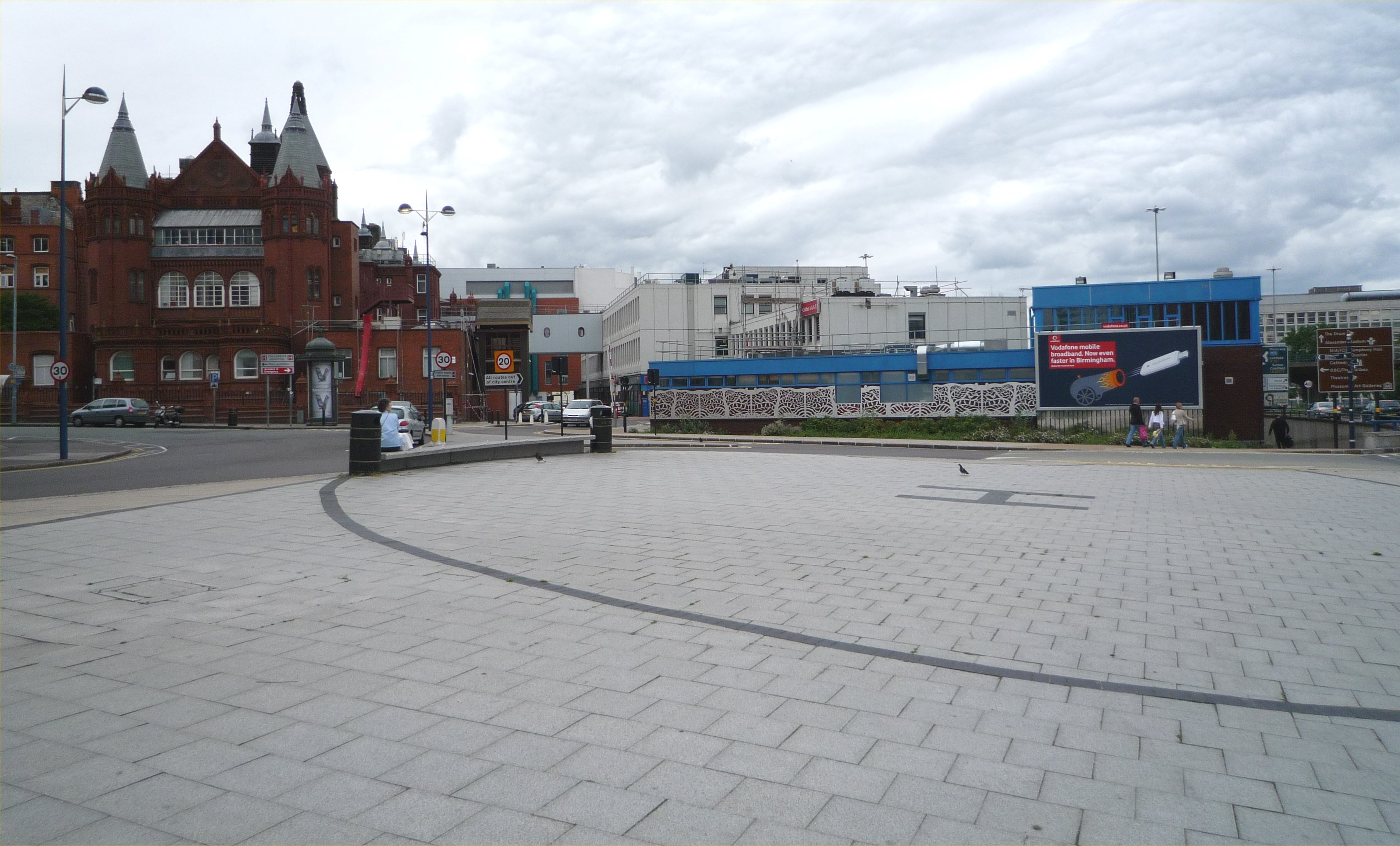 The helicopter landing area at Birmingham Children's Hospital, Birmingham, England, flanking the Inner Ring Road.